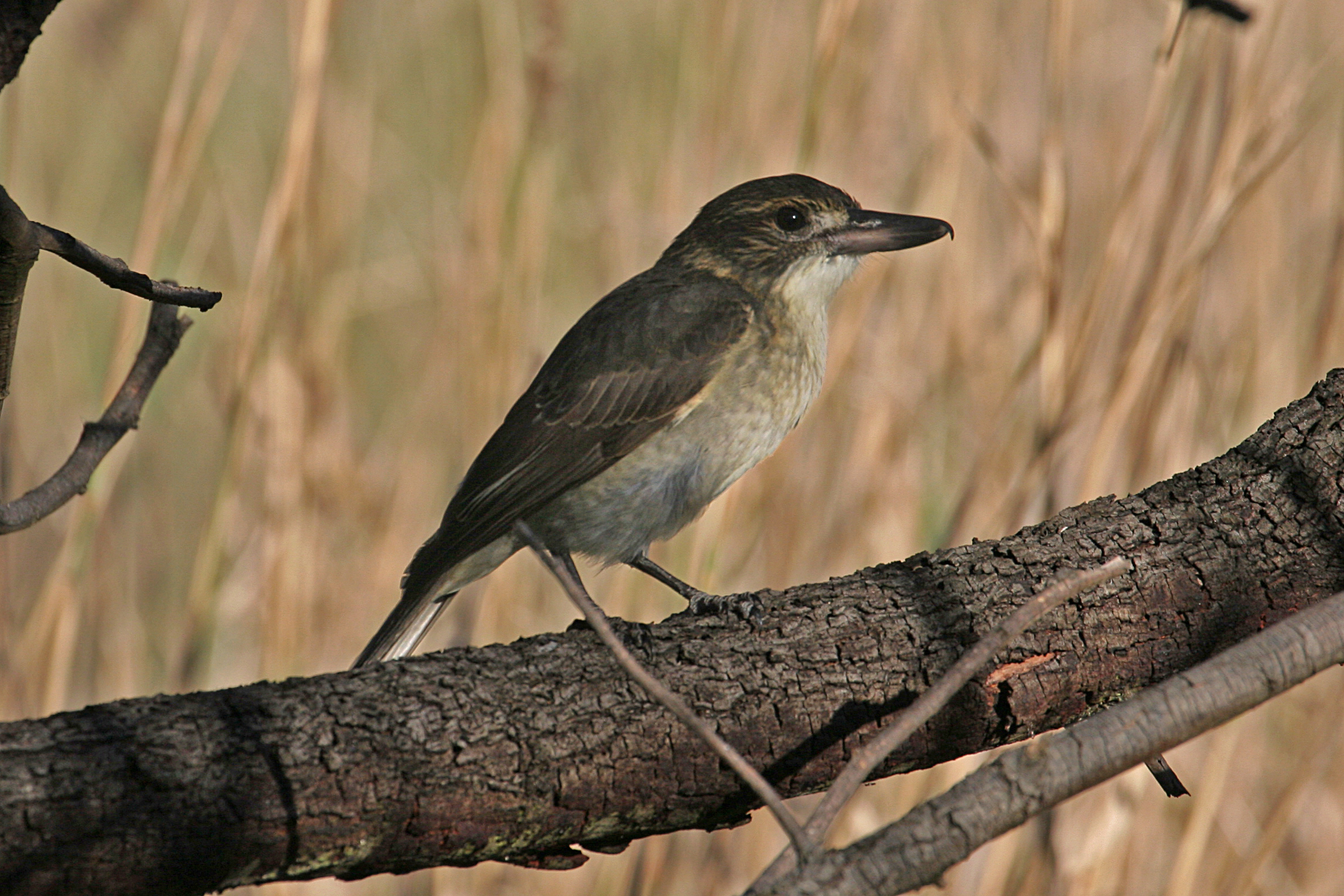 Grey Butcherbird (Cracticus torquatus), Braeside, Victoria